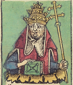 Illustration from the Nuremberg Chronicle (Latin copy in Sao Paulo)